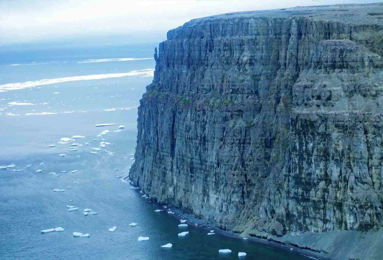 Limestone cliffs of Beechey Island